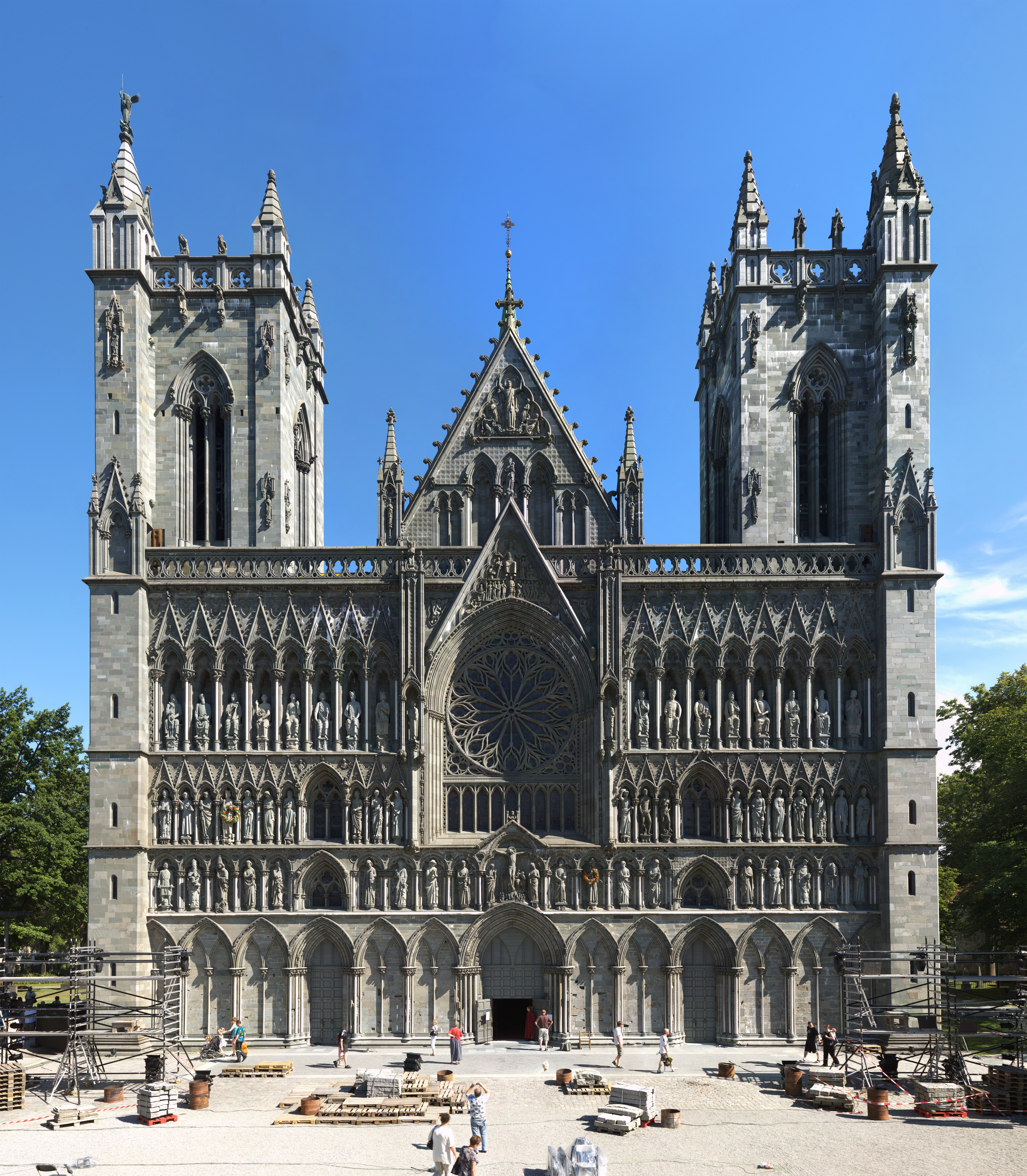 A panorama of Nidarosdomen, Trondheim, Norway during Olavsfestdagene. The image was stitched together by 67 pictures.